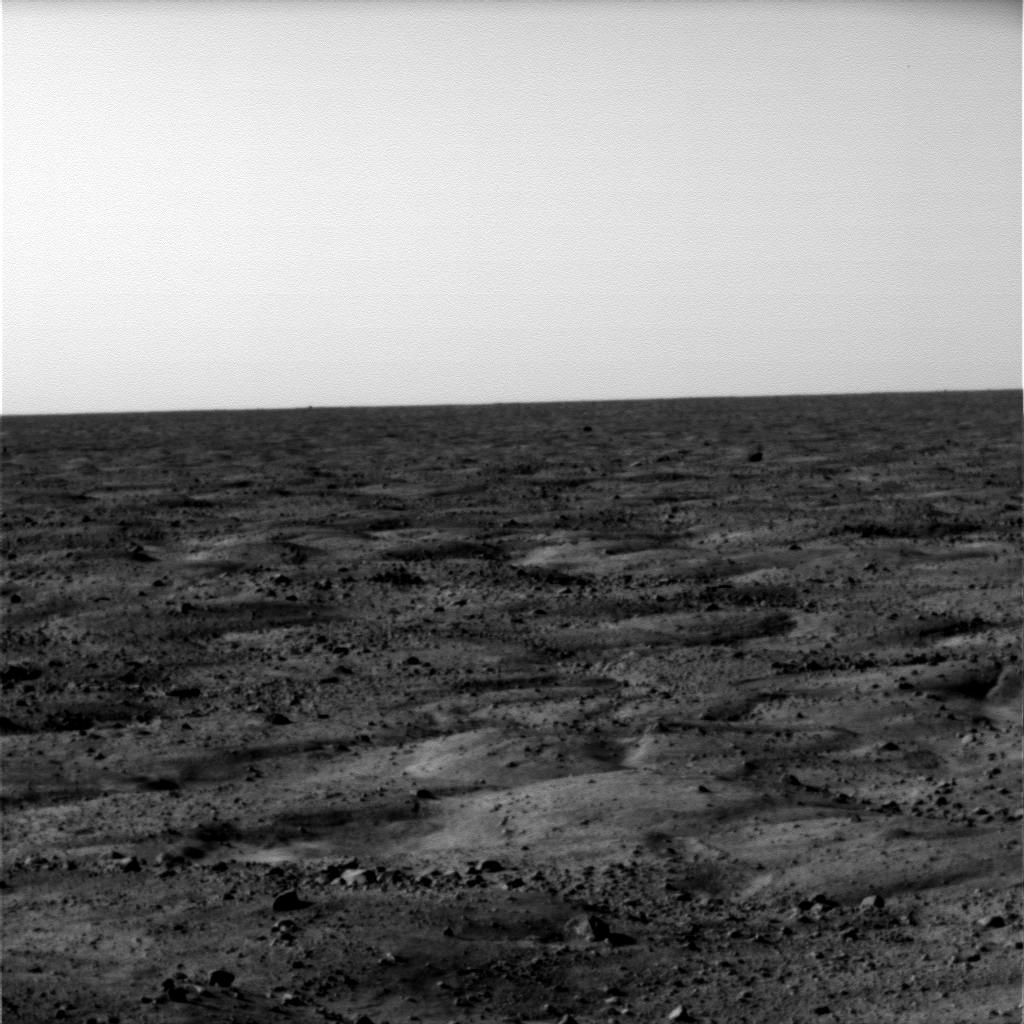 One of the first images returned from the Phoenix Mars lander.